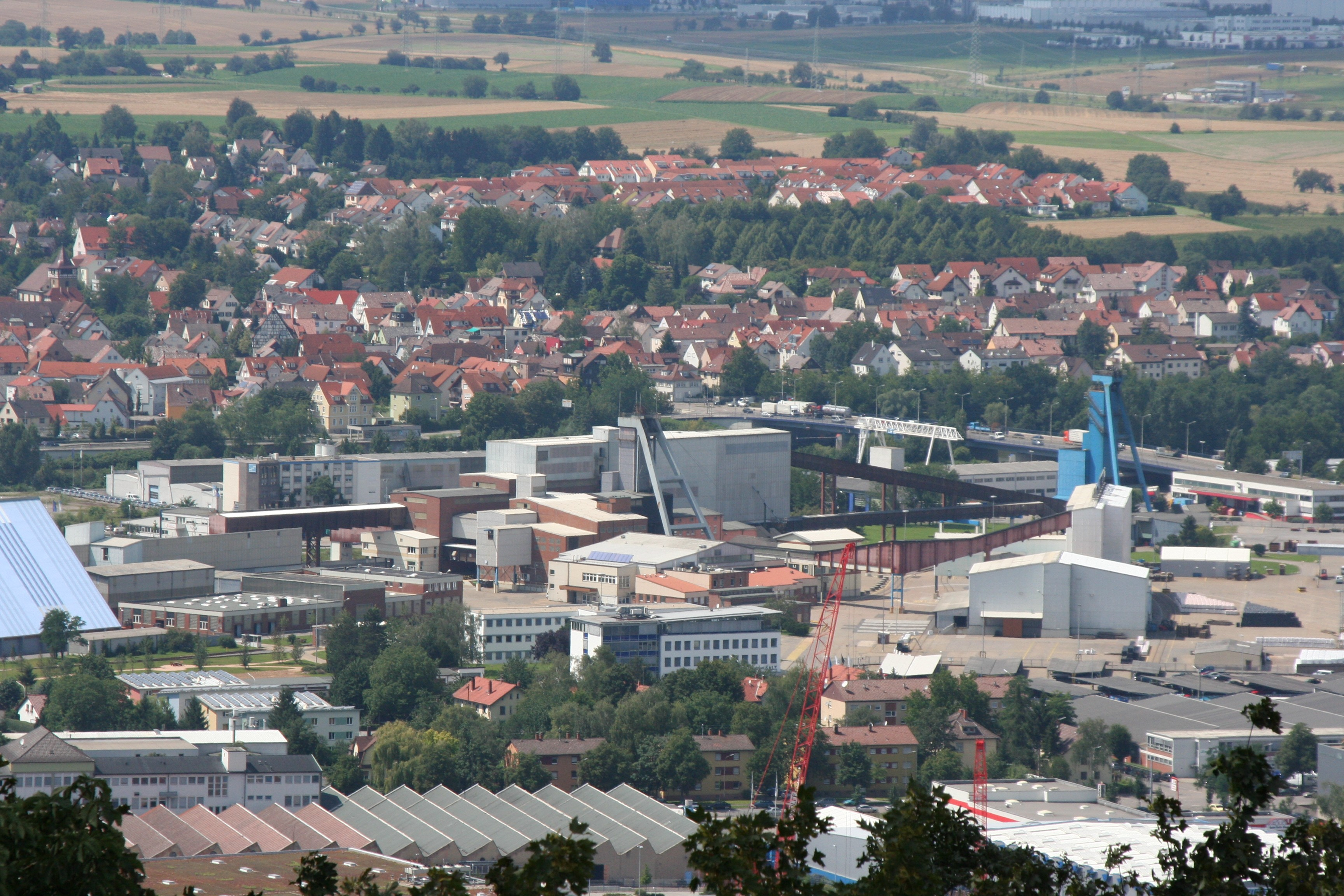 The area of the salt company in Heilbronn as seen from the Wartberg tower